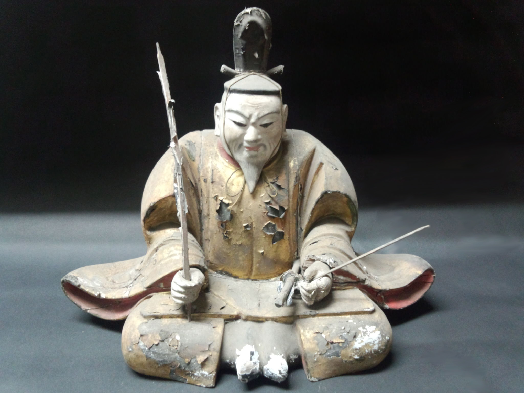 Statue of the patron deity of the Nagakubo Castle in Suruga Province (now Shizuoka Prefecture) in Japan